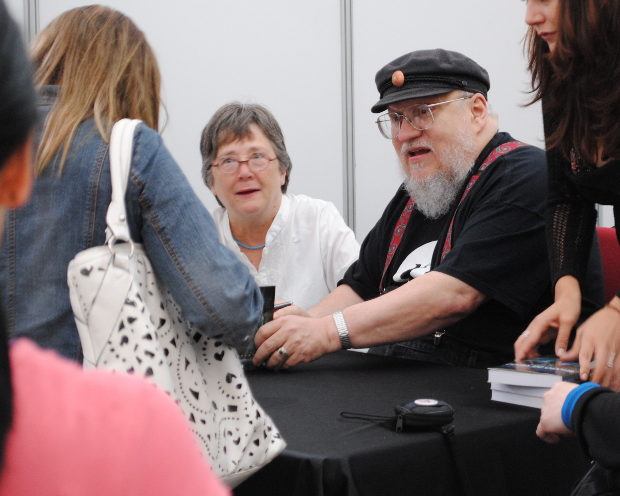 See title.